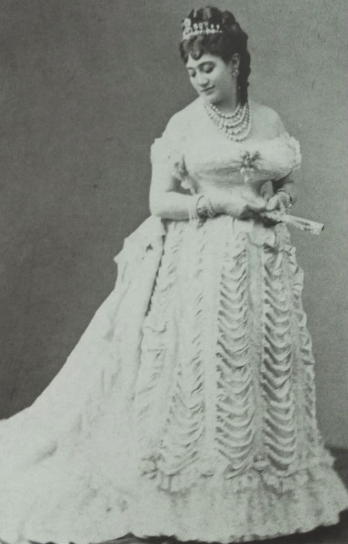 Esther Lachmann alias Thérèse Lachmann, later marquise de Païva